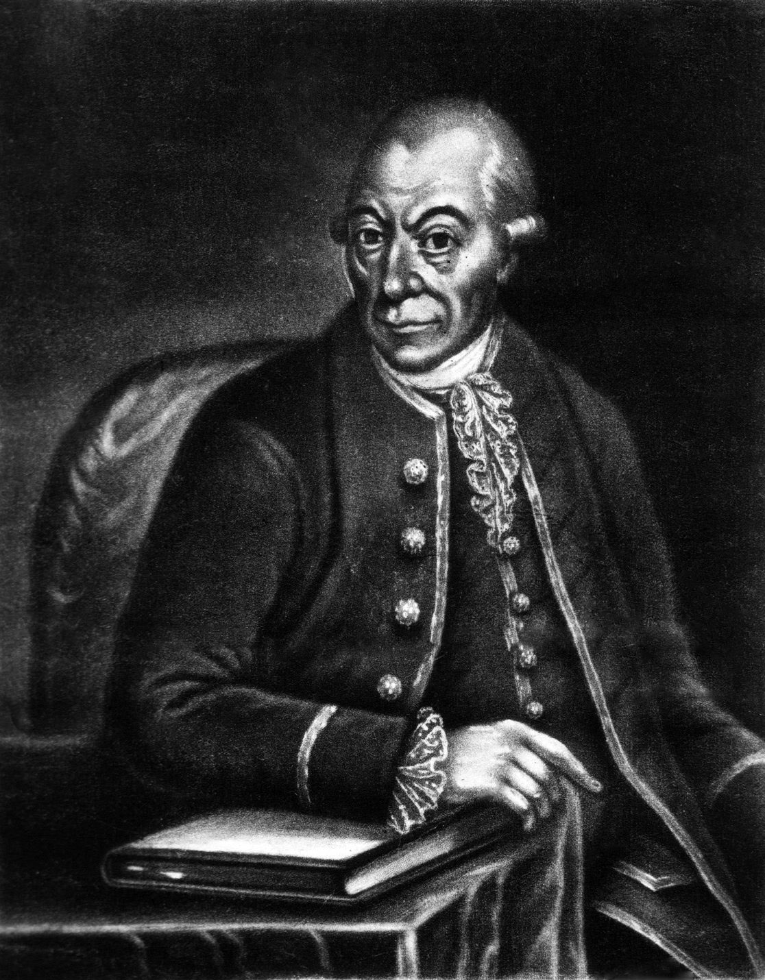 Nathanael Matthaeus von Wolf ( 24 January 1724; 15 December 1784), physician and astronomer